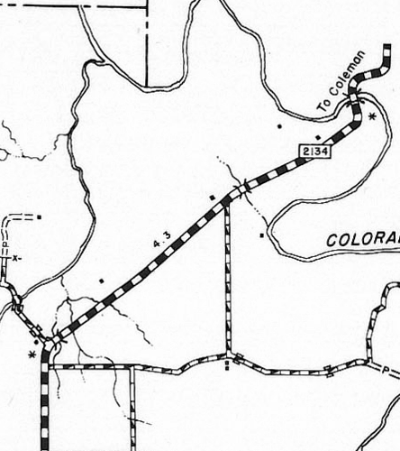 A crop of FM 2134 from the 1961 General Highway Map Concho County Texas. The route served as the predecessor to part of RE 11.